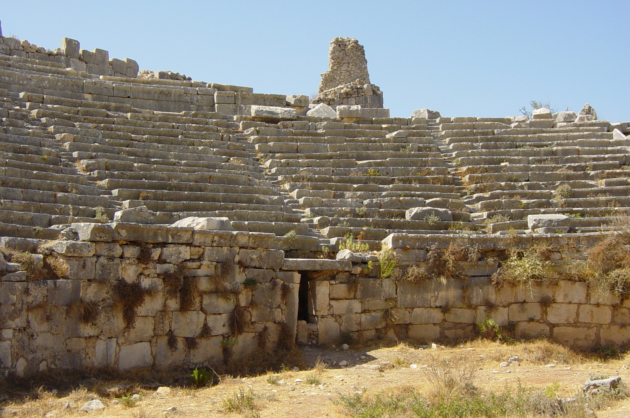 Banked seating in ruined theatre in Xanthos, Turkey.